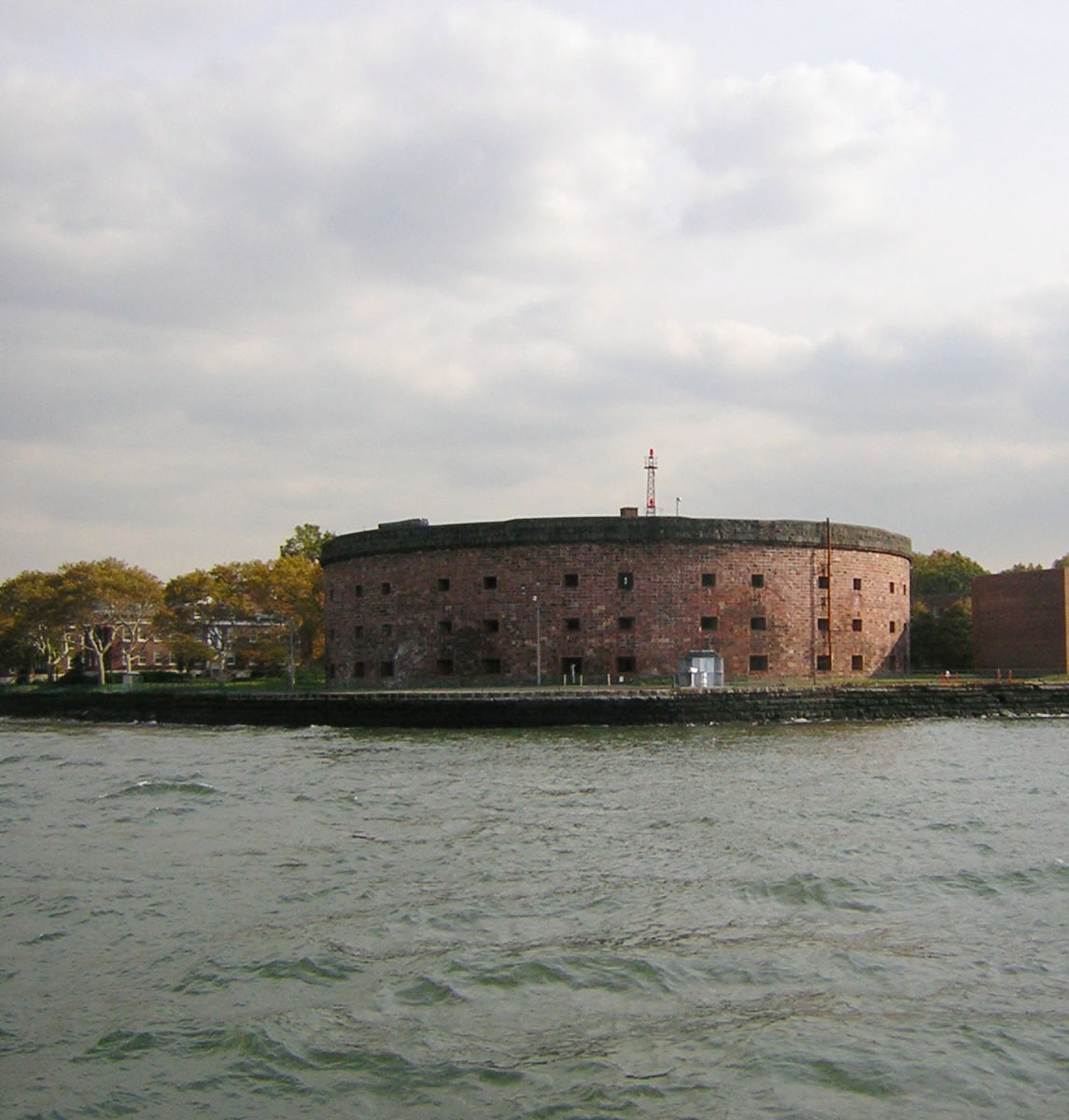 Castle Williams on Governor's Island, as seen from the harbor on a partly cloudy early afternoon Circle Line boat ride